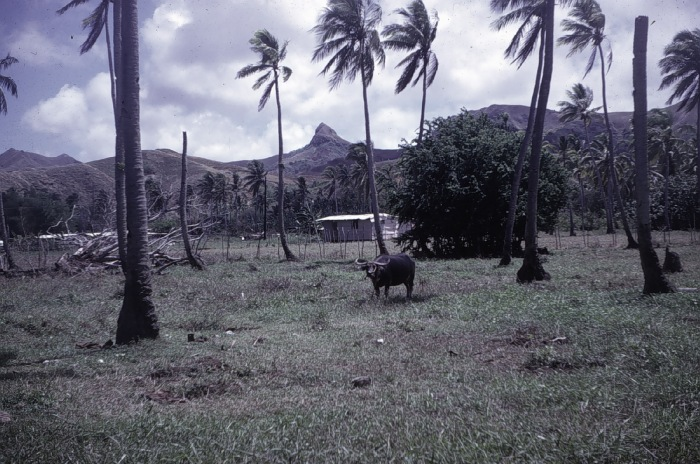 Pastoral scene in Merizo, Guam. Volcanic terrain, swaying palms, and water buffalo. Image ID: theb3088, Historic C&GS Collection Location: Guam, Marianas Islands Photo Date: 1966 Credit: Captain Albert E. Theberge, NOAA Corps (ret.) Category:Images of Guam